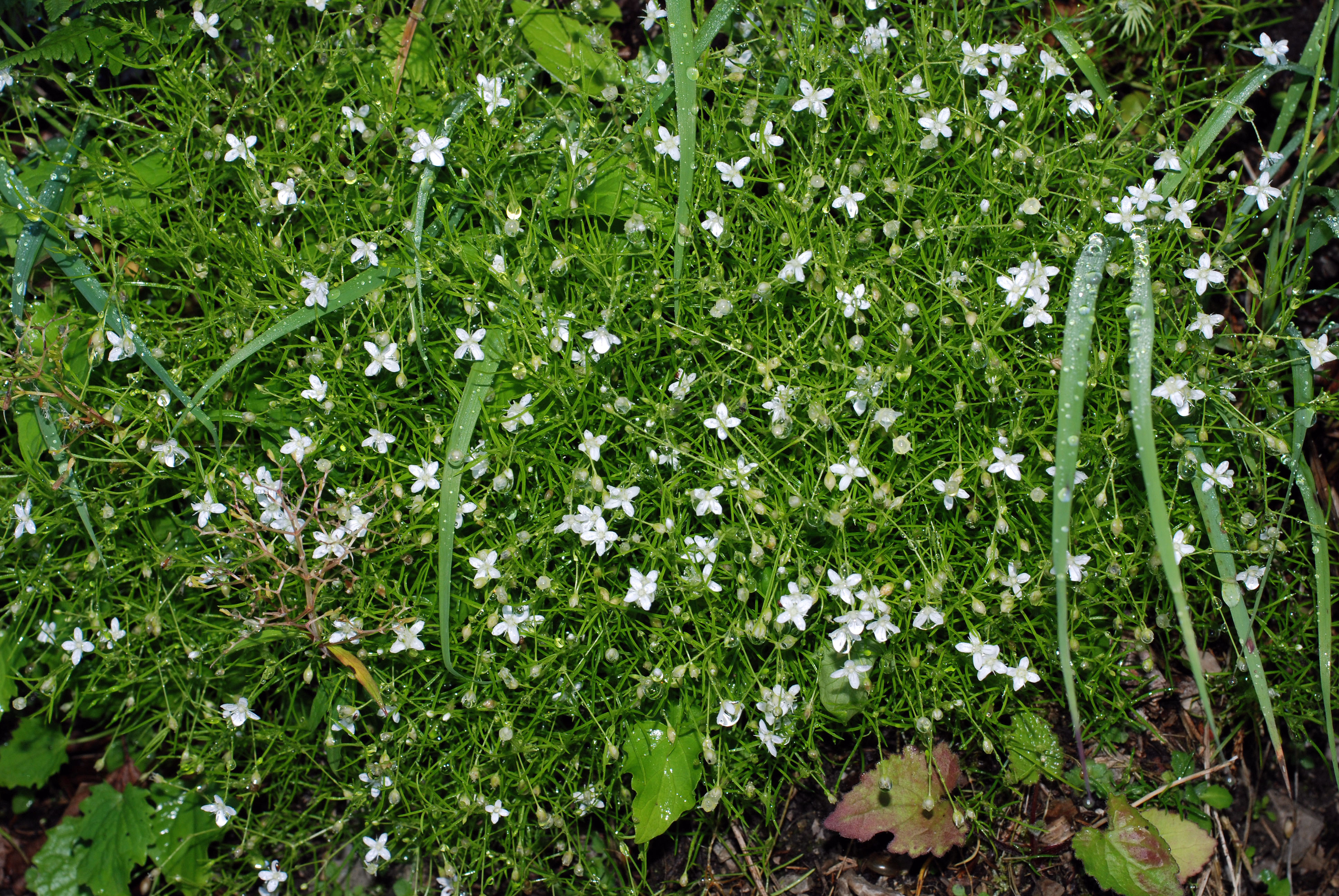 Moehringia muscosa, near Hinterstoder ~800 m, Upper Austria, Austria